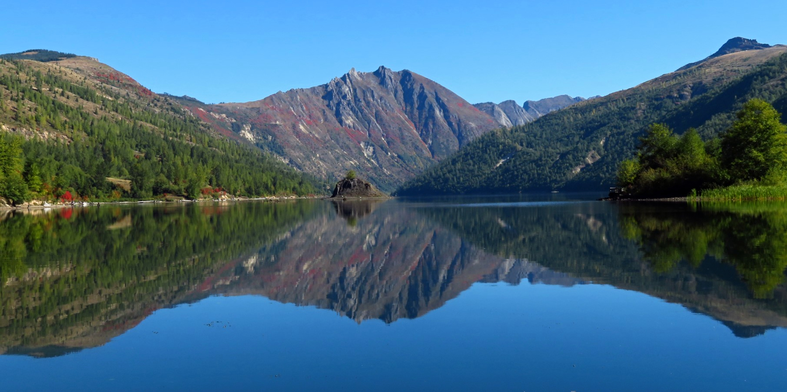 Coldwater Lake MSHNVM